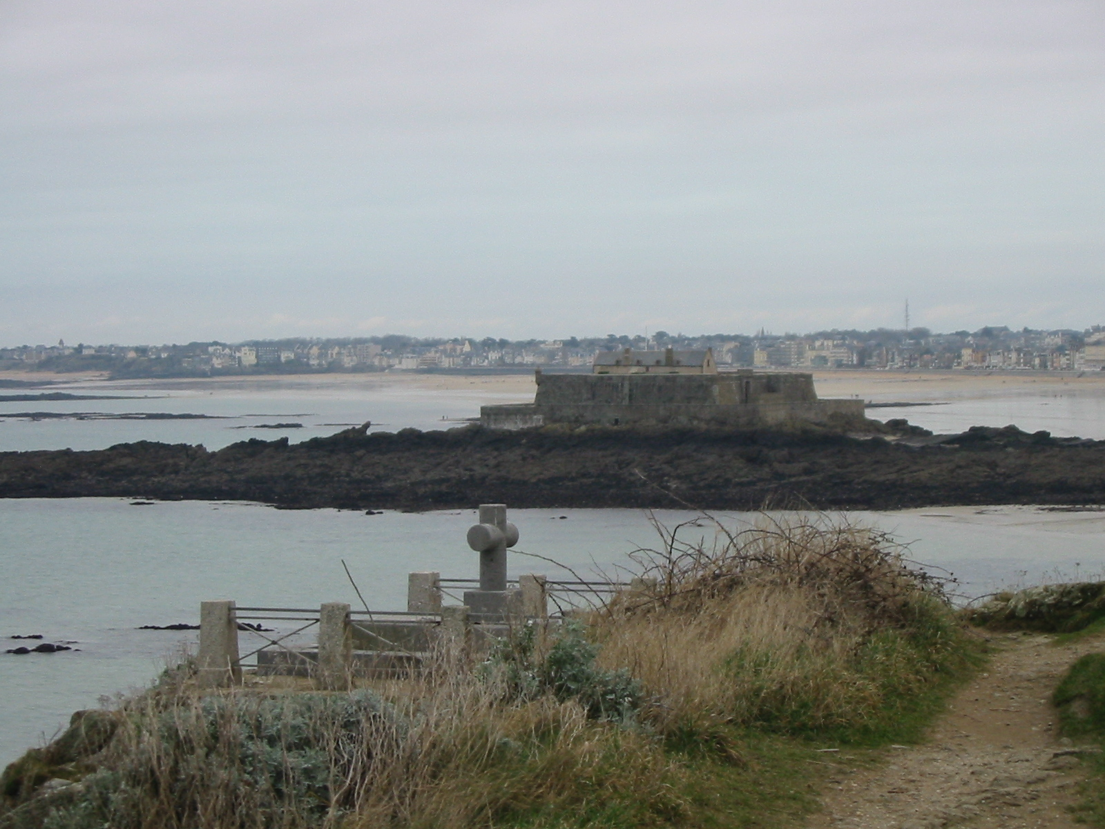 French writer Chateaubriand's grave (Saint-Malo, France).